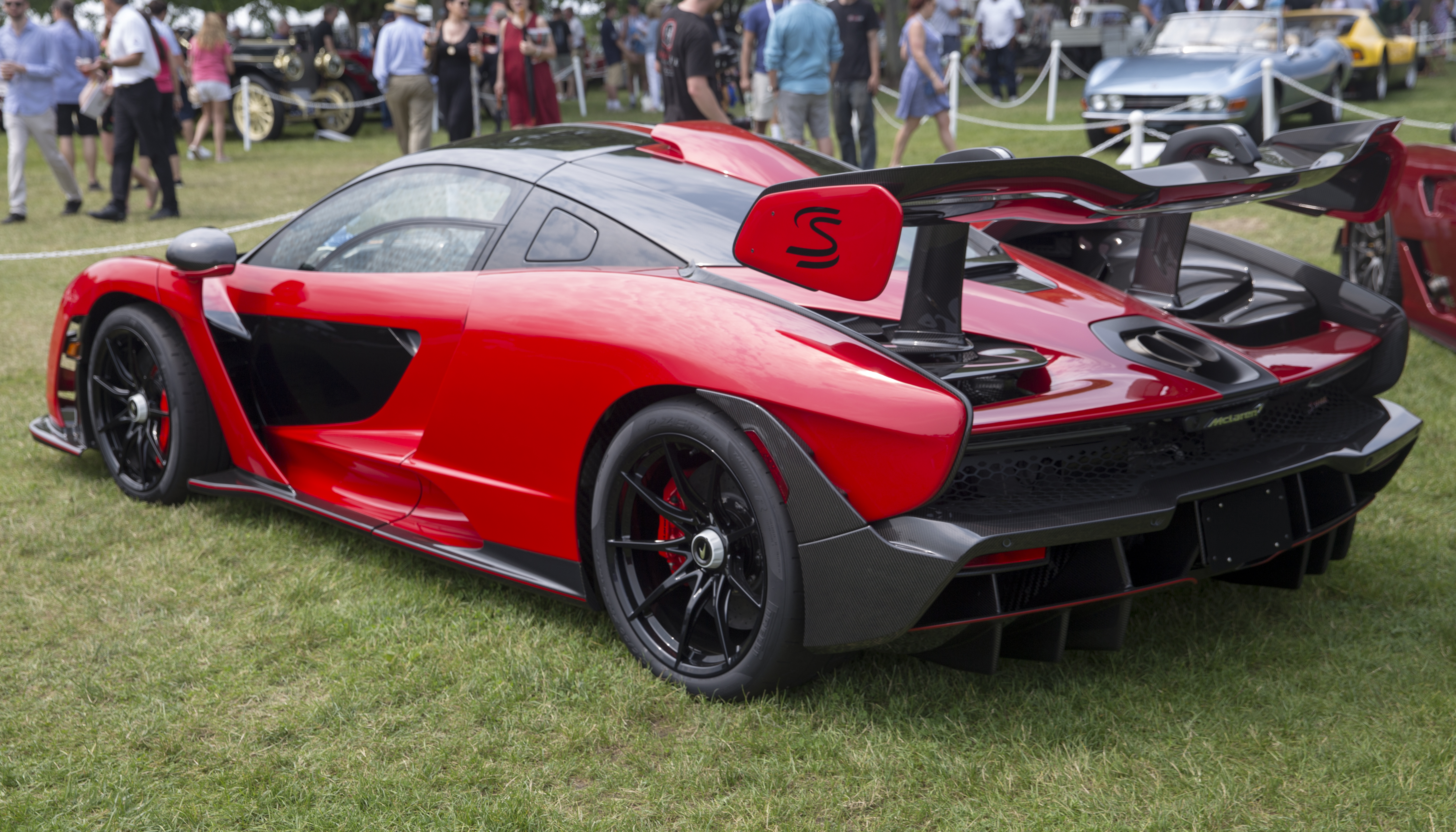 2019 McLaren Senna at the 2019 Greenwich Concours d'Elegance. I was never a Senna fan, but this hideous and boring design is an insult to his memory.